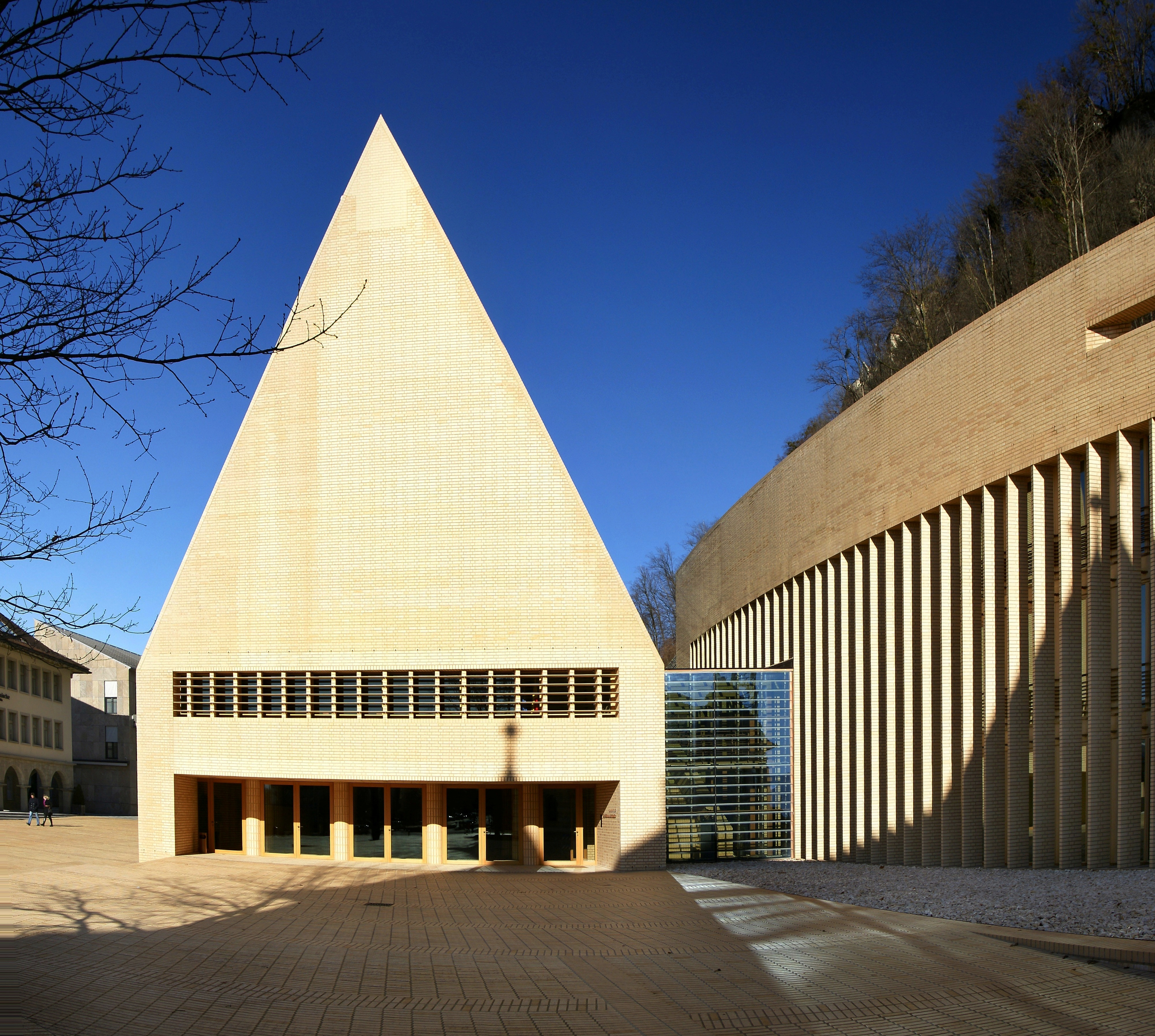 Regierungsgebäude (Government Building), Vaduz, Liechtenstein - Seat of Government and Parliament.